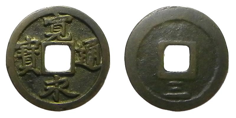 Kanei-tsuho-nisui3